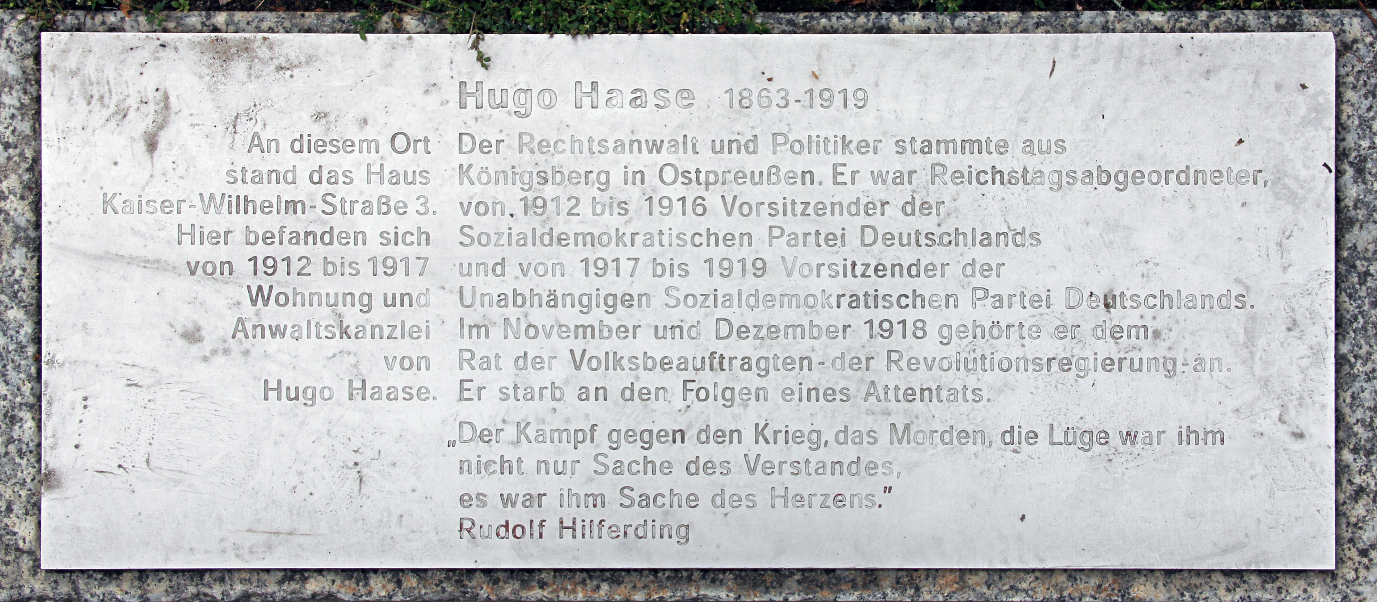 Memorial plaque, Hugo Haase, Karl-Liebknecht-Straße 4, Berlin-Mitte, Deutschland